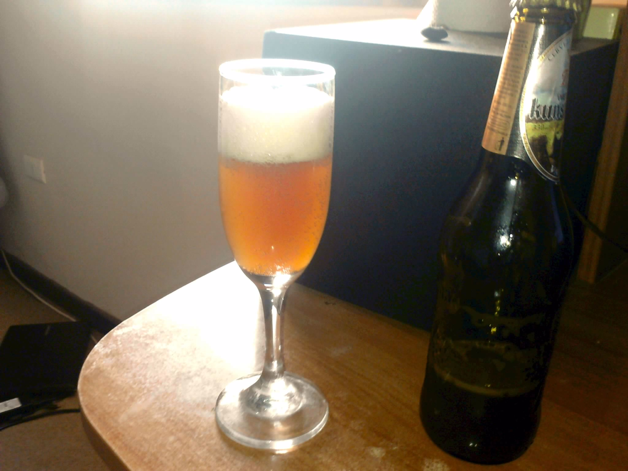 Kunstmann Weissber beer